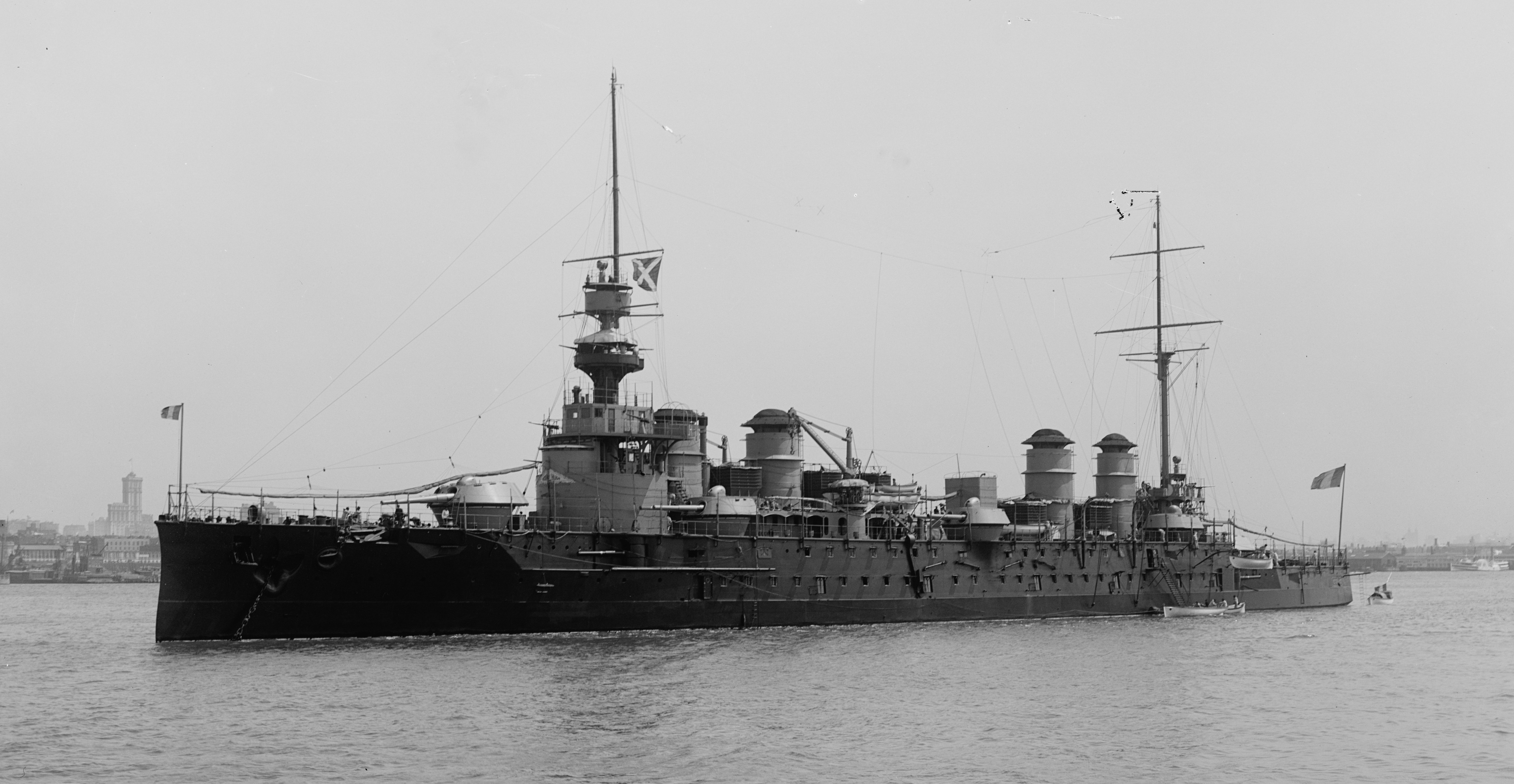 French cruiser Victor Hugo